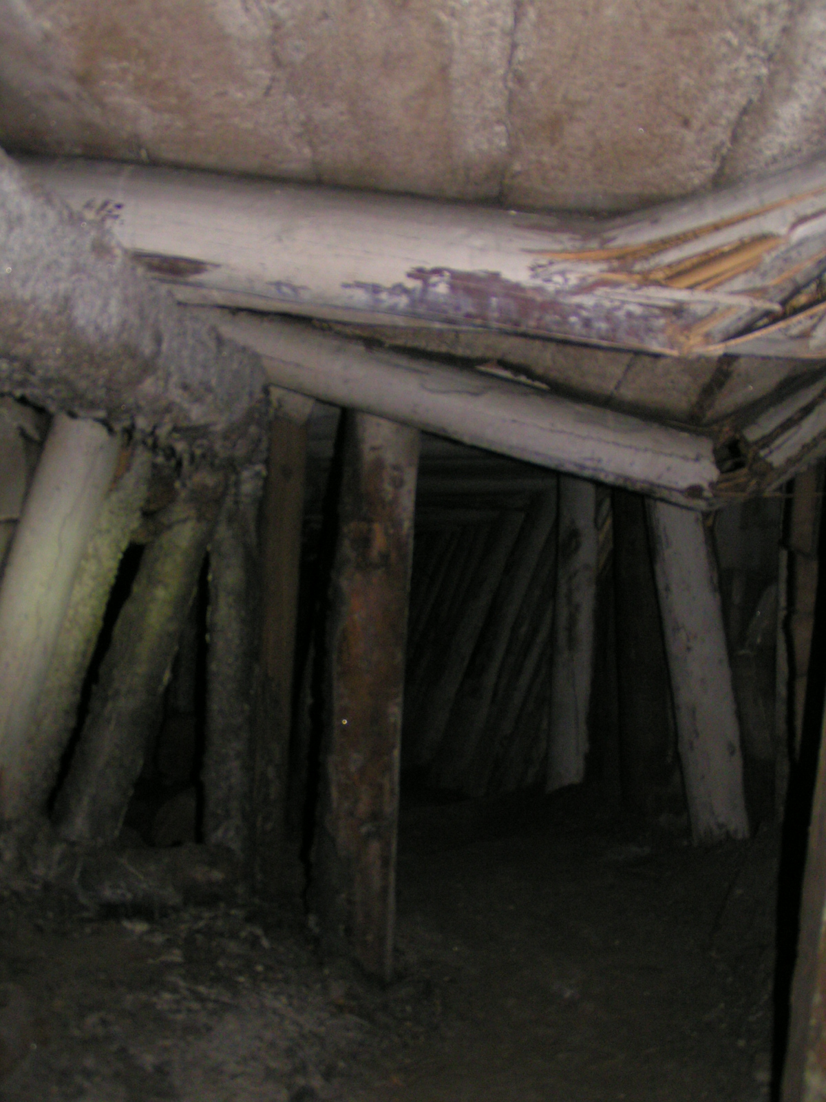 Old corridor - Salt Mine Wieliczka